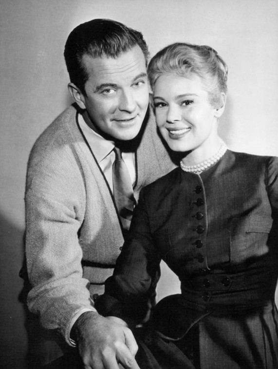 Photo of William Lundigan and Betsy Palmer from the television program Playhouse 90. The presentation was "No Time At All".